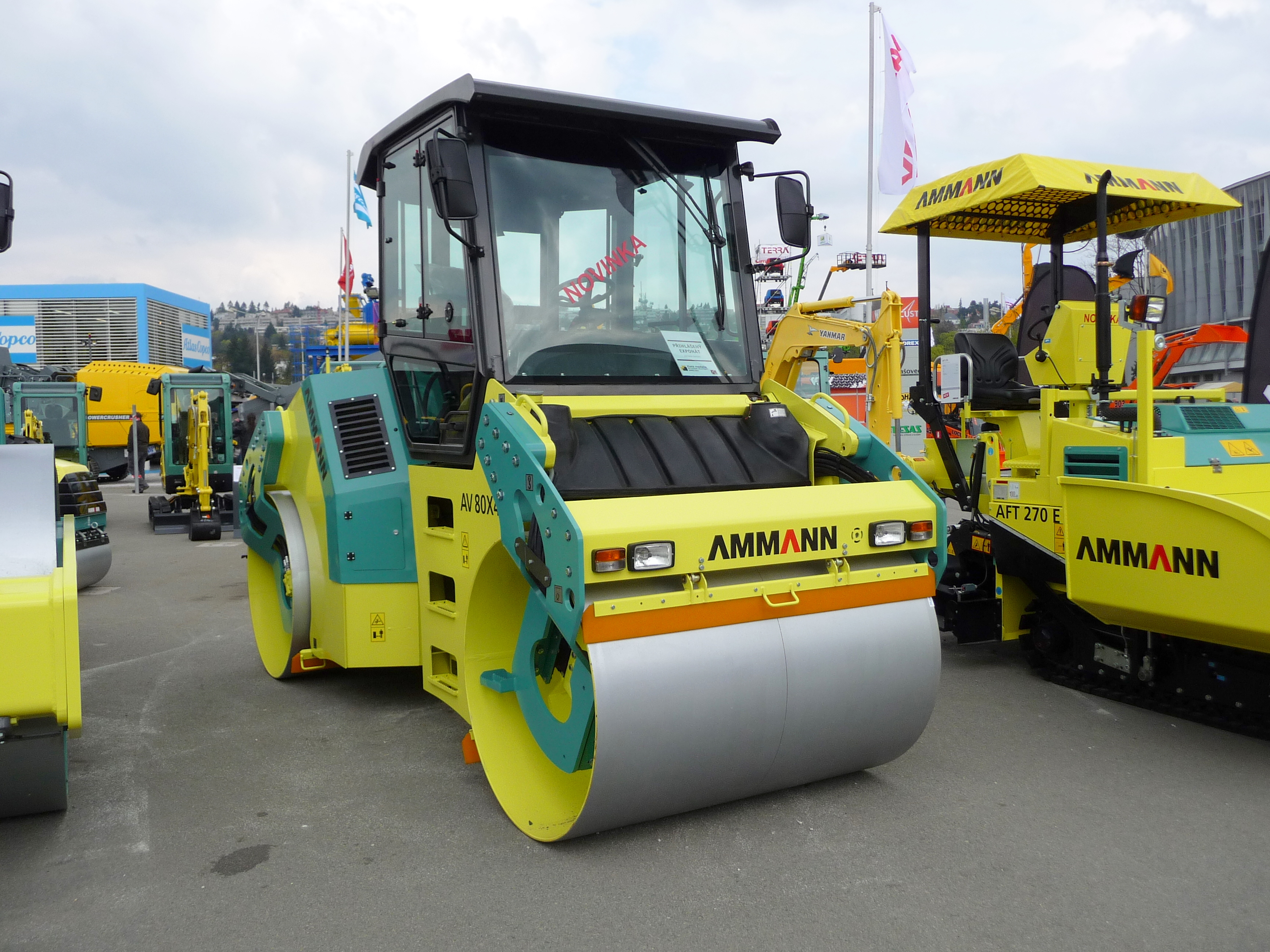 Double drum roller Ammann AV 80X4, Building Fairs Brno 2011 -10-5-3-2◄ ►+2+3+5+10